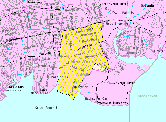 U.S. Census 2000 reference map for East Islip